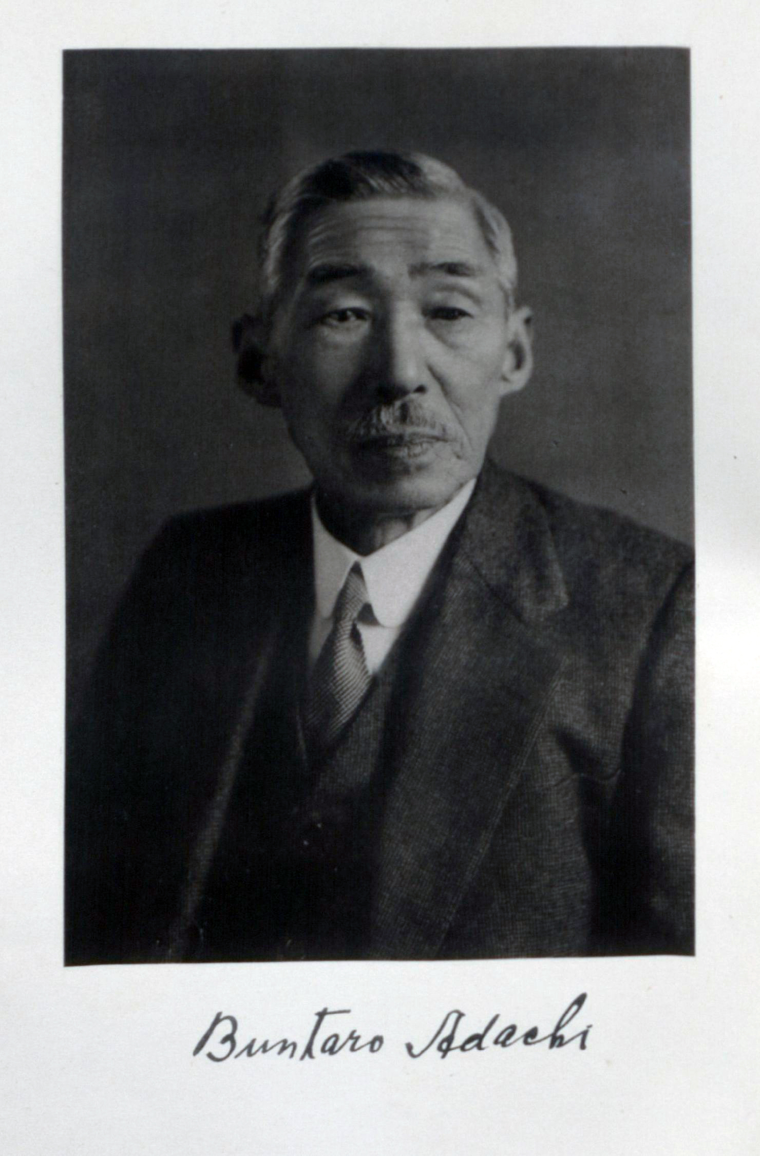 Buntarō Adachi